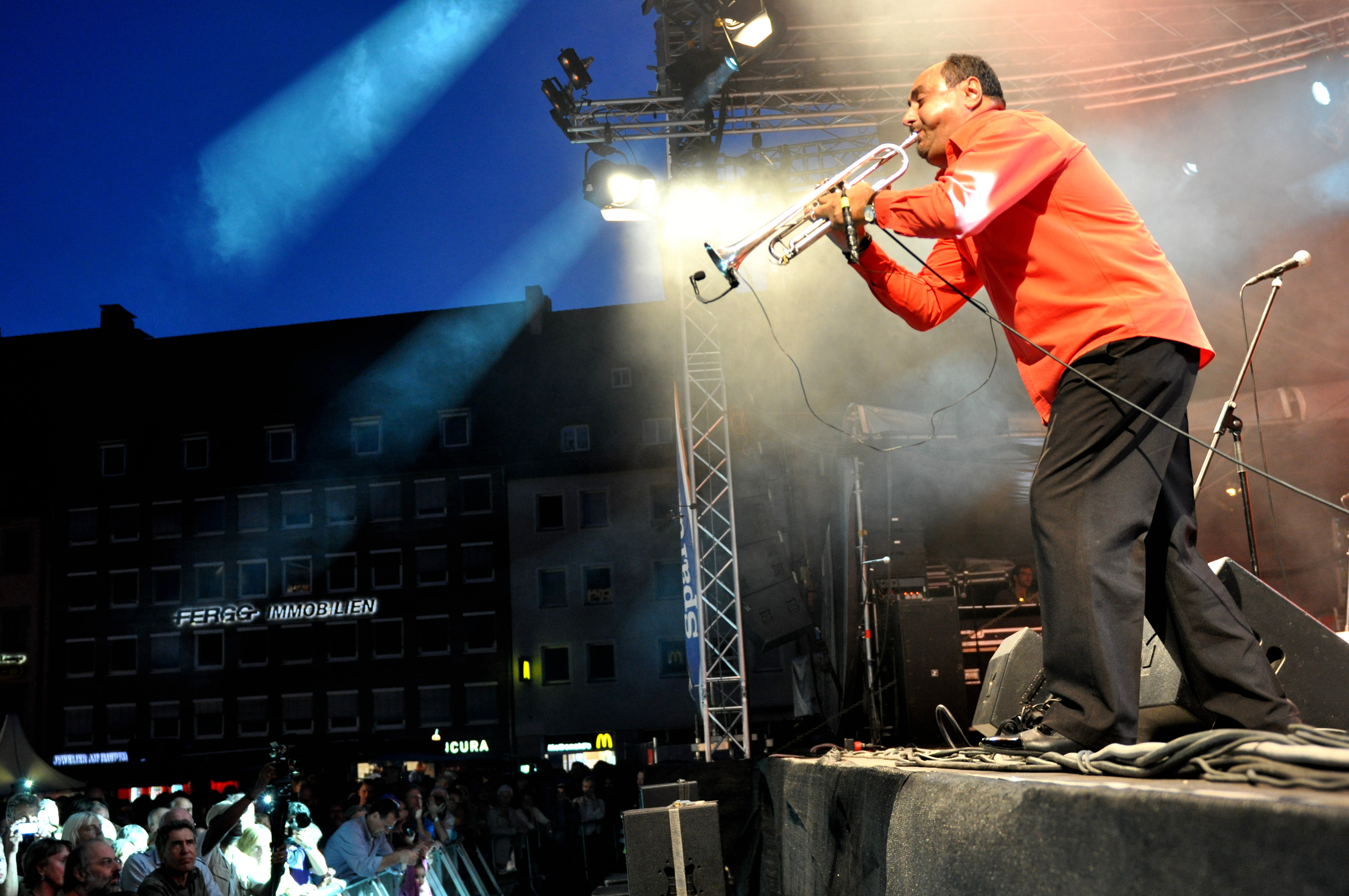 Fanfare Ciocărlia (ROM), Hauptmarkt stage, 40th music festival 'Bardentreffen' 2015 at Nuremberg, Germany Festivalsommer This photo was created with the support of donations to Wikimedia Deutschland in the context of the CPB project "Festival Summer".